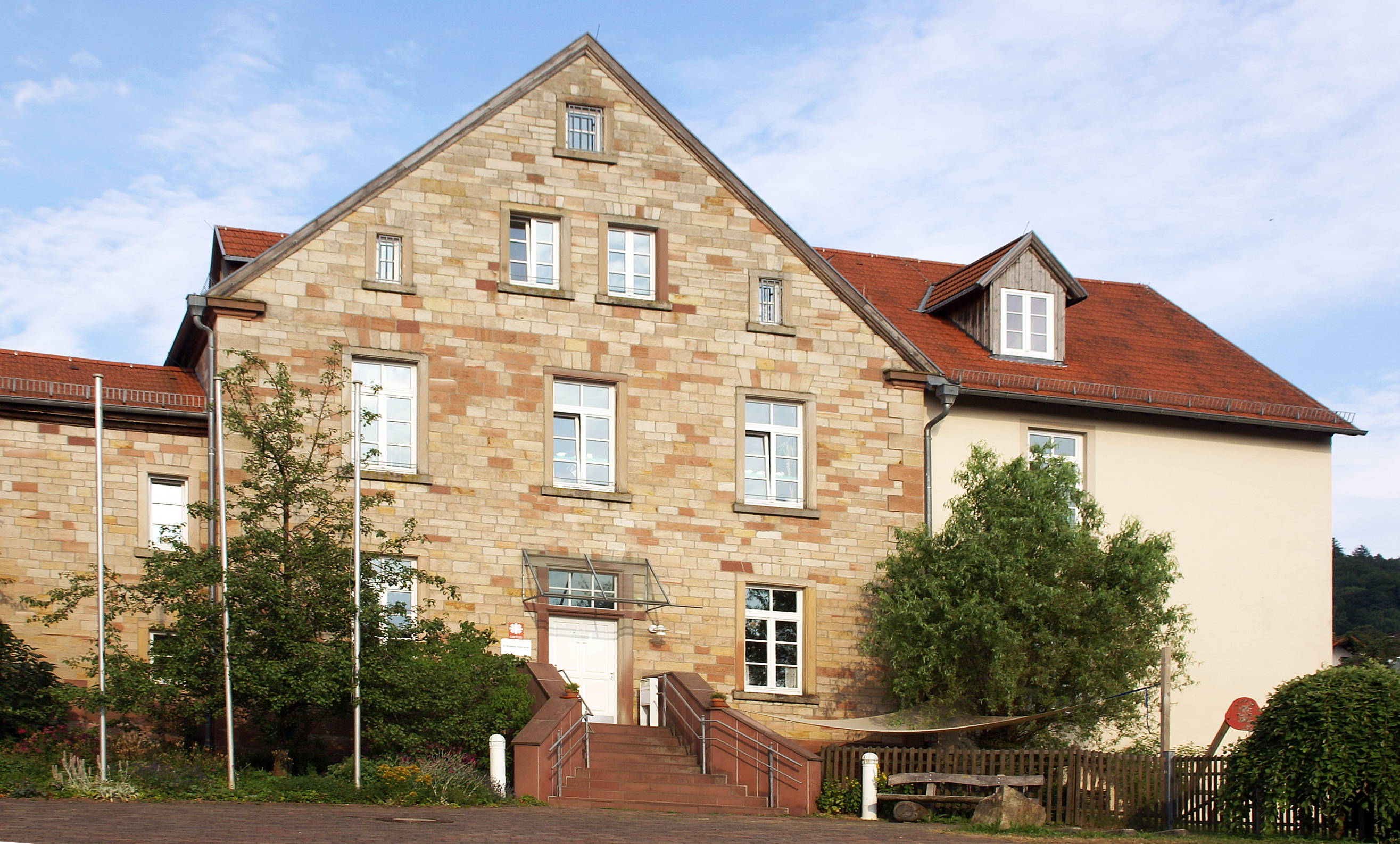 The St. Wendelinus Kindergarten in Eichenberg